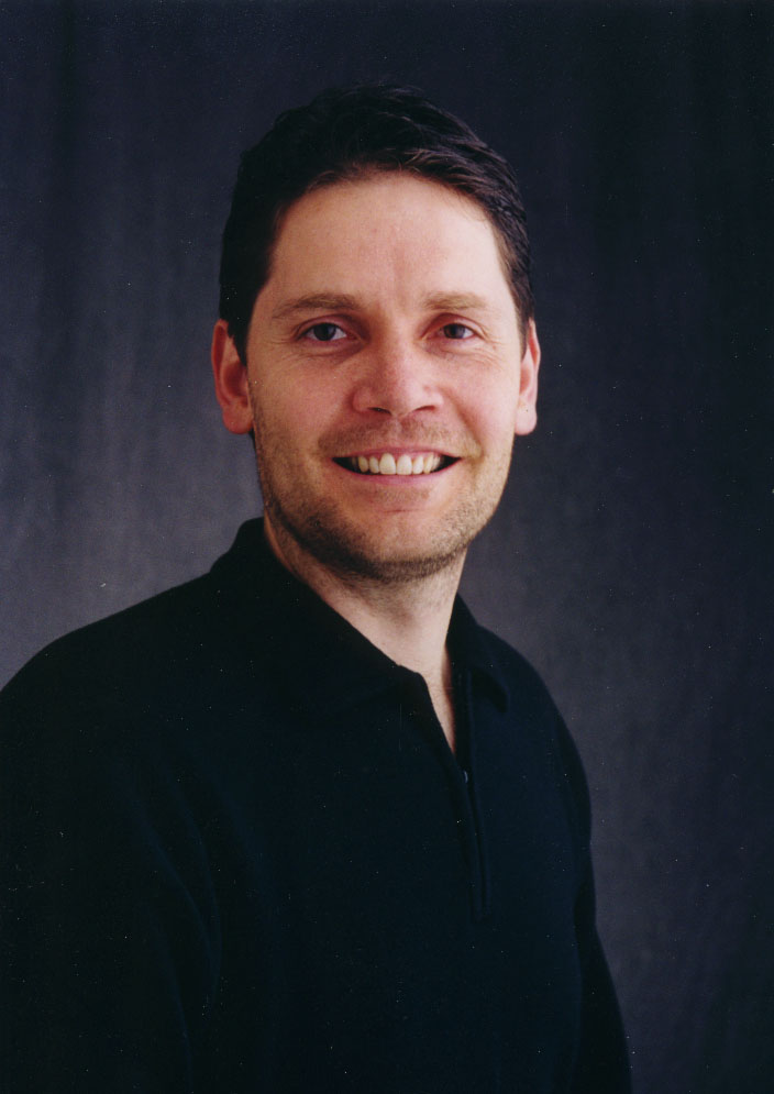 Photo of the American scholar Douglas K. Hartman